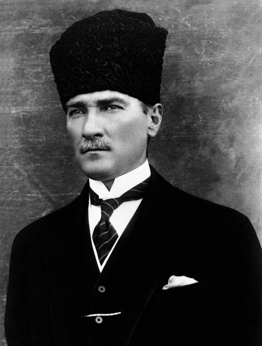 Portrait photo of Mustafa Kemal Atatürk from early 1920s